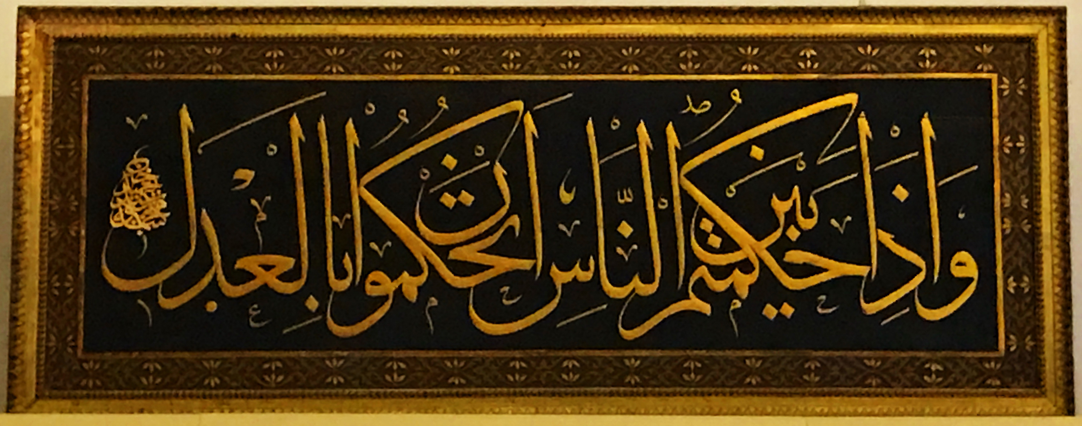 Arabic Calligraphy inside "Ulu Cami" (Grand Mosque of Bursa), Bursa, Turkey. Verses of Quran, Hadith, and wisdom. Ulu Cami is built in the Seljuk style, it was ordered by the Ottoman Sultan Bayezid I and built between 1396 and 1399. The mosque has 20 domes and 2 minarets.